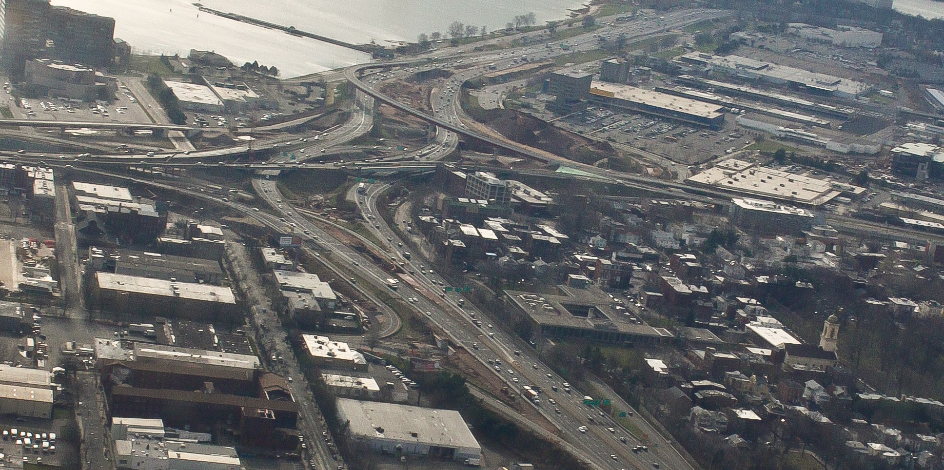 New Haven